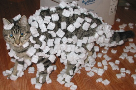 Styrofoam peanuts clinging to a cat's fur due to static electricity. The triboelectric effect causes an electrostatic charge to build up on the fur due to the cat's motions. The electric field of the charge causes polarization of the molecules of the styrofoam due to electrostatic induction, resulting in a slight attraction of the light plastic pieces to the charged fur. This effect is also the cause of static cling in clothes. Image cropped losslessly from File:Cat and styrofoam – electrostatic charge (235112299).jpg using cropgtk